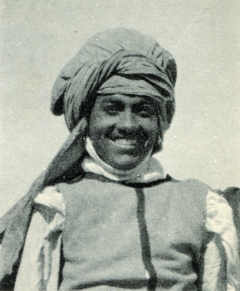 Slimane Ehnni, an Algerian soldier who died on 14 April 1907. Best known for being the husband of Isabelle Eberhardt.